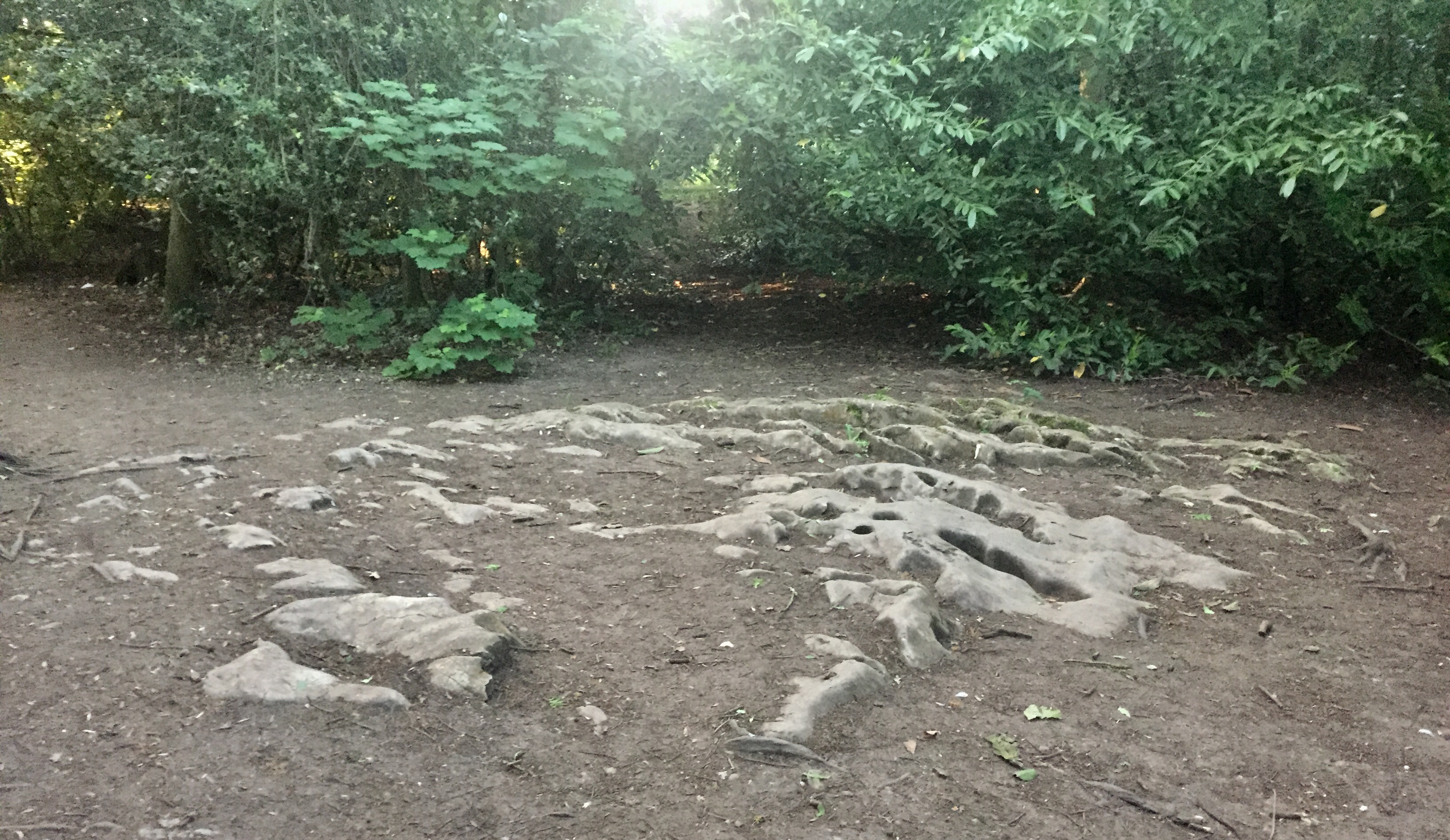 Giant's Footprint is a limestone pavement formation in Blaise Castle Estate. Legend suggests it was caused by a giant Goram, who stamped his foot after failing to win the affections of Lady Avona.